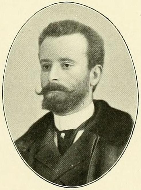 Portrait of the Italian botanist Fridiano Cavara